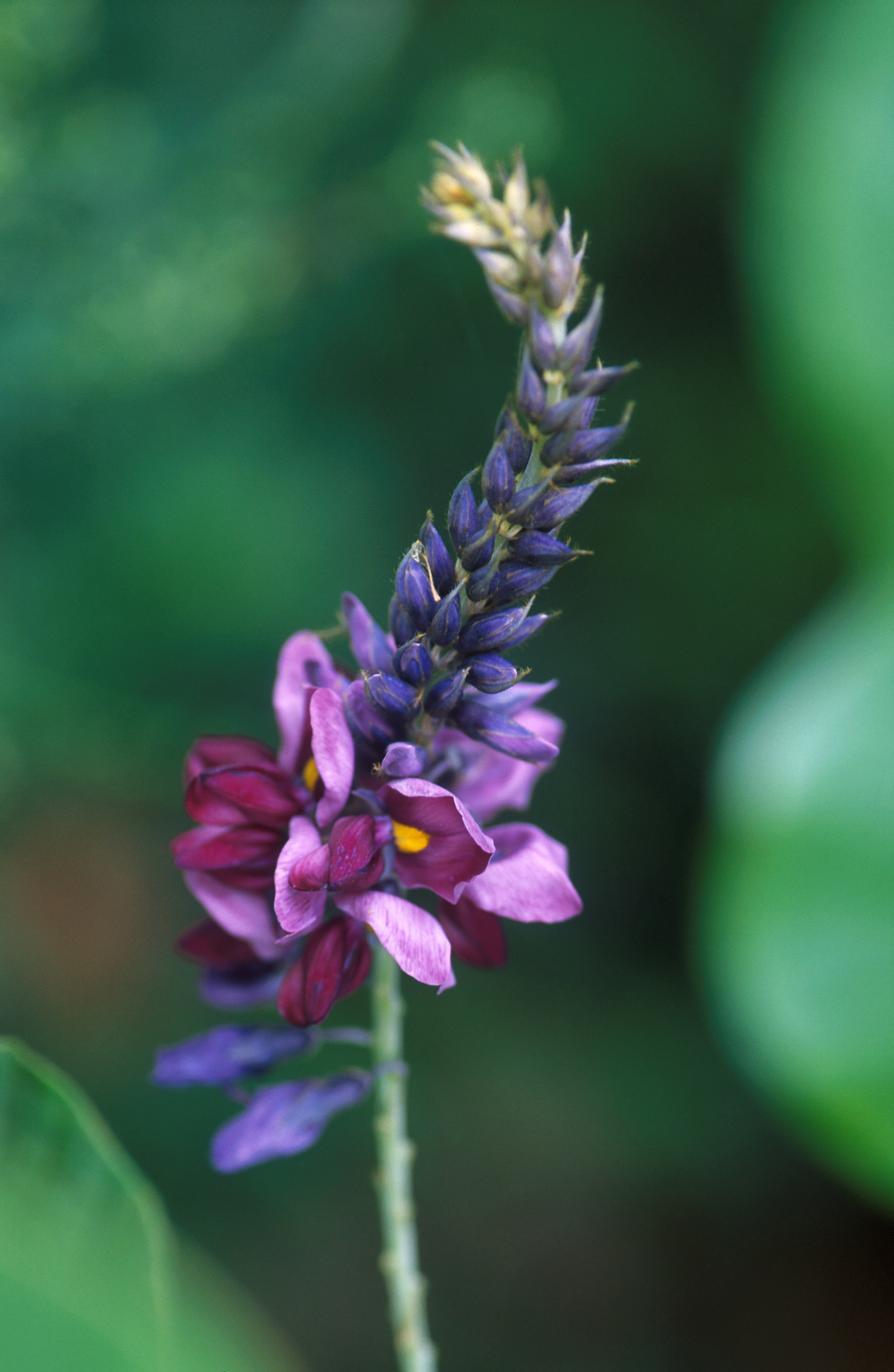 Flowering kudzu is a fast-growing legume with a grapelike odor.